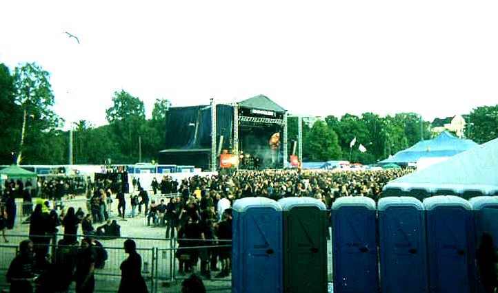 Tuska Open Air Metal Festival in Helsinki, Finland.